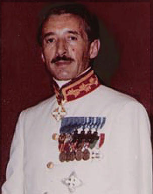 Edgardo Sogno with militar uniform